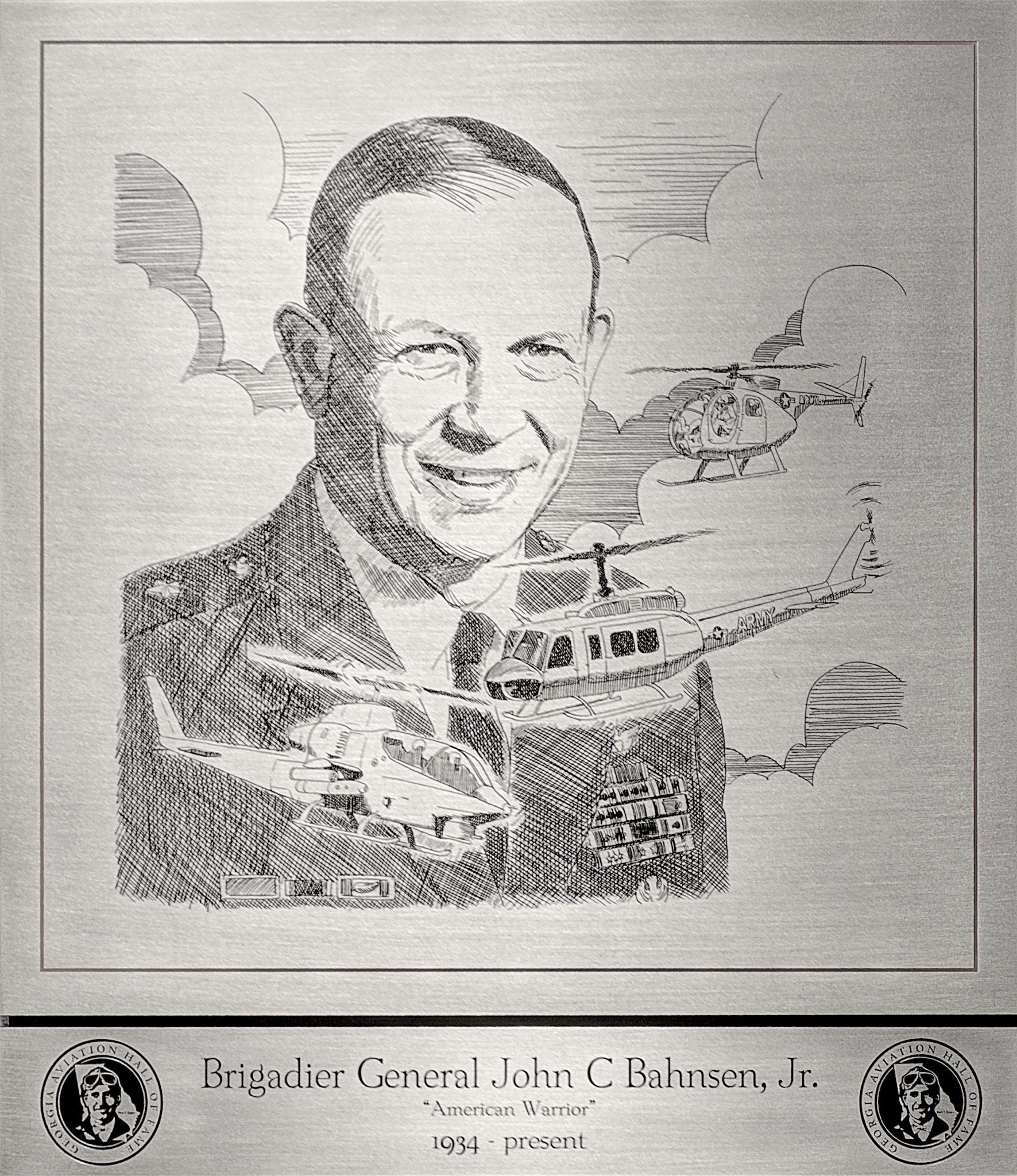 Brigadier General John C. Bahnsen, Jr.